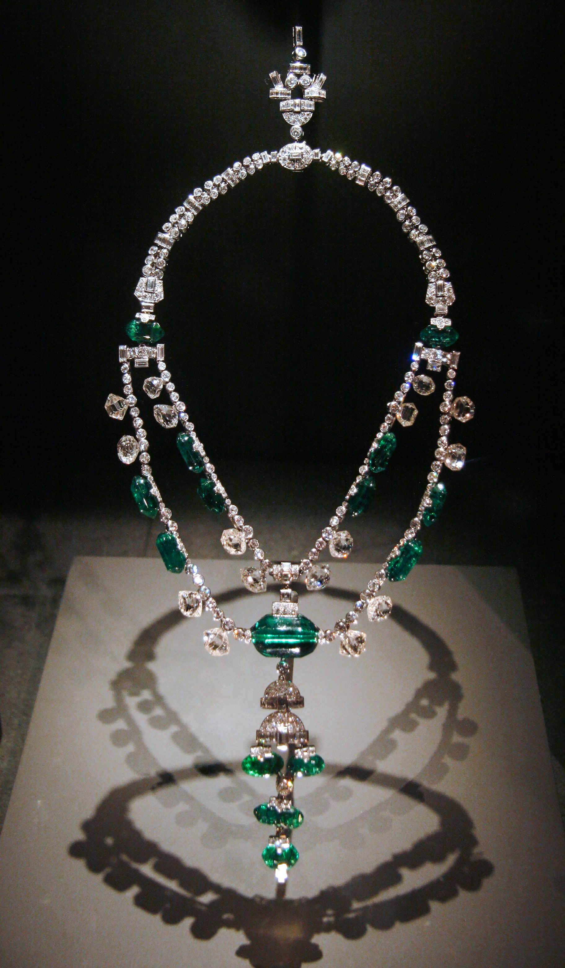 The upper half of the necklace consists of many small diamonds threaded onto a silver chain. The lower half of the necklace is divided into two concentric semi-circular strands, each carrying eight pairs of "football-shaped" diamonds and four pairs of barrel-cut emeralds, arranged symmetrically. The centre of the lower strand holds a large emerald supporting a pendant which itself holds five smaller emeralds. The point where the upper and lower halves of the necklace join is marked by two large emeralds threaded onto the chain. Altogether, there are 15 emeralds and 374 diamonds in the necklace. The name Spanish Inquisition Necklace was given by Harry Winston. The necklace has no connection to the Spanish Inquisition whatsoever.front view